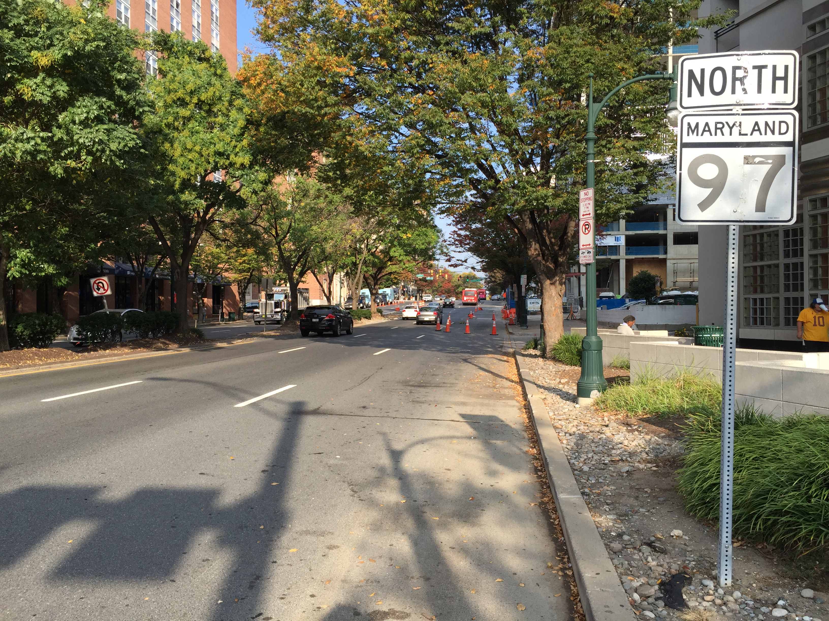 View north along Maryland State Route 97 (Georgia Avenue) at Maryland State Route 384 and U.S. Route 29 (Colesville Road) in Silver Spring, Montgomery County, Maryland